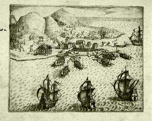 The Dutch and Hitu defeat the Portuguese at Amboina in 1605. Engraved by Isaac Commelin in 1645.